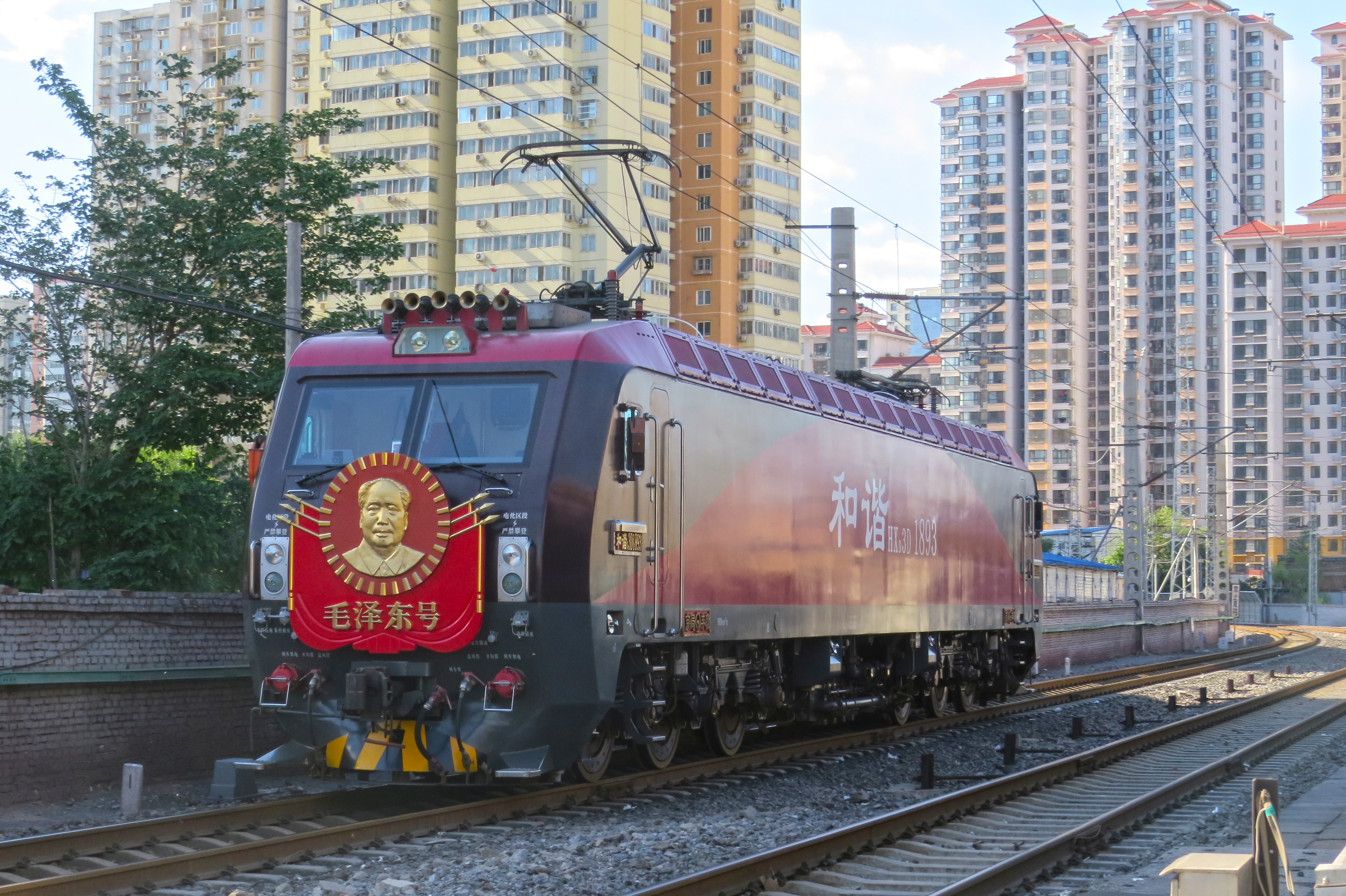 Heading for Beijing West Railway Station after Z307 left the level crossing. This locomotive will haul the first Z1 to Changsha!